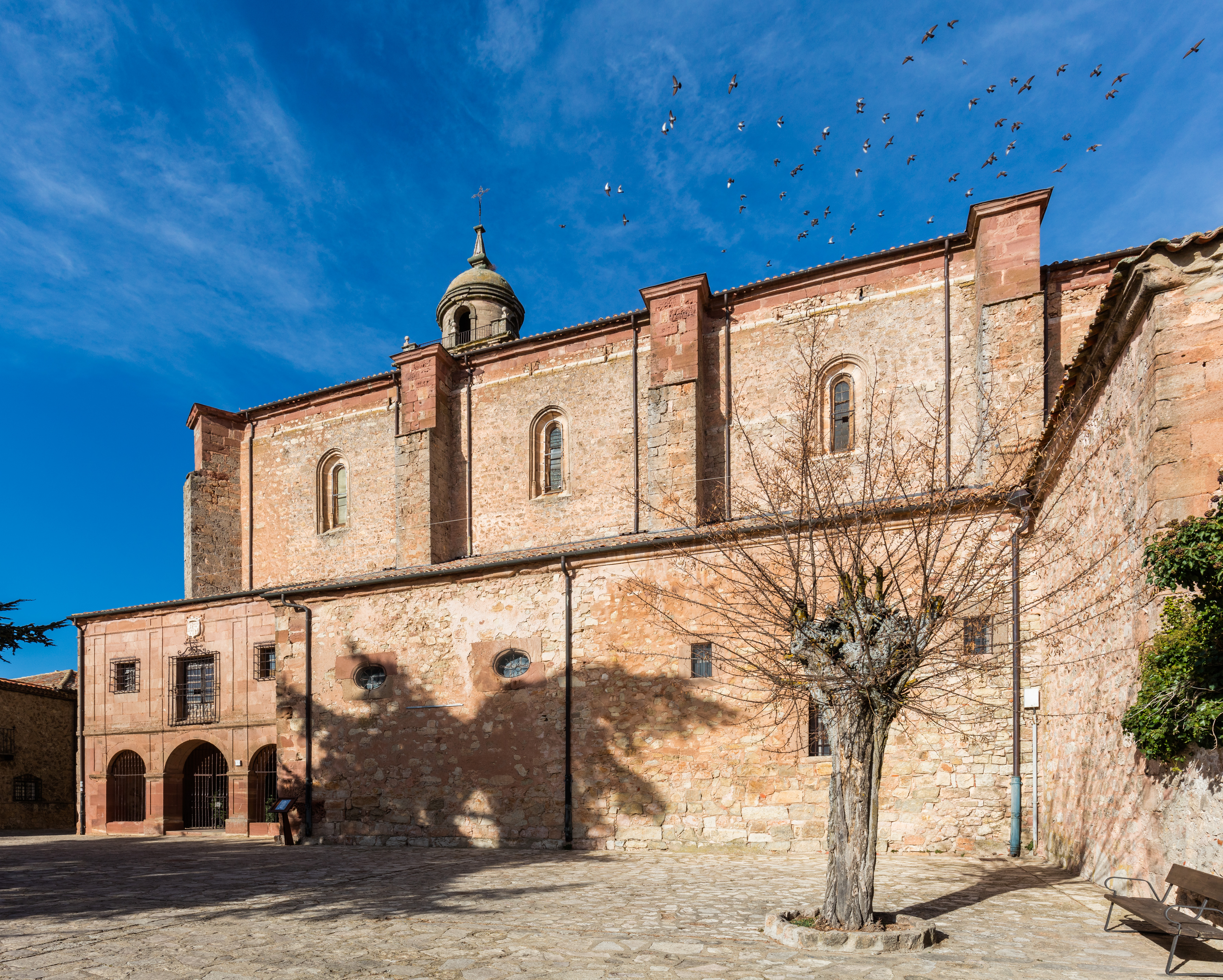 Colegiate, Medinaceli, Soria, Spain